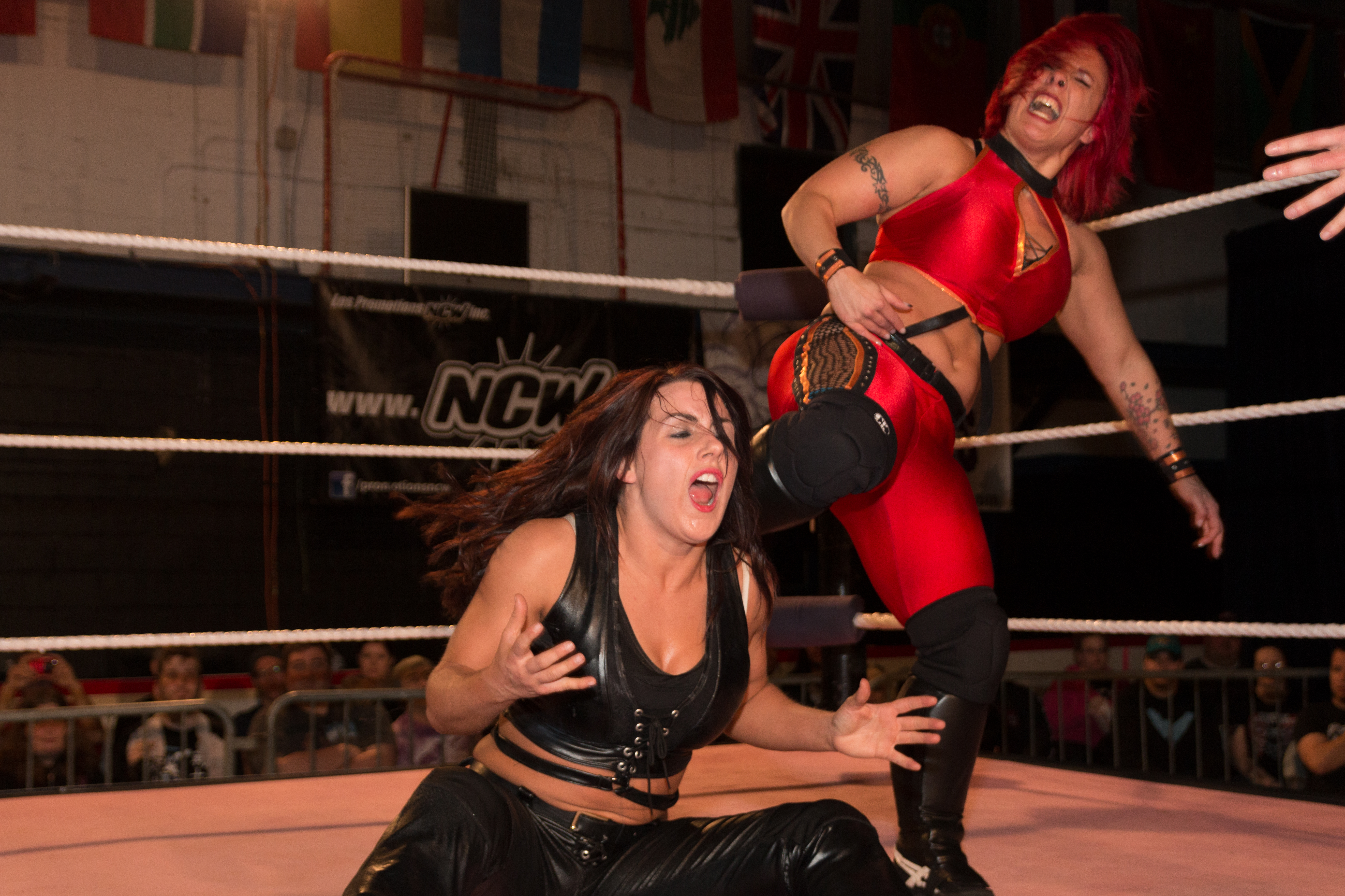 Independent wreslter LuFisto (right) delivering a kick to Nikki Storm at an NCW Femme Fatales show in Montreal, QC